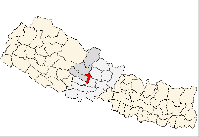 FrenchCarte de localisation dudistrict de Parbat(wp-FR),au Népal (wp-FR).EnglishLocation map ofParbat District(wp-EN),in Nepal (wp-EN).